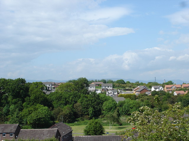 Housing in Polmont near Falkirk. Wooded ridge in middle distance is an esker formed by streams flowing in glaciers some 10000 years ago. Housing dates from 1970s and '80s.